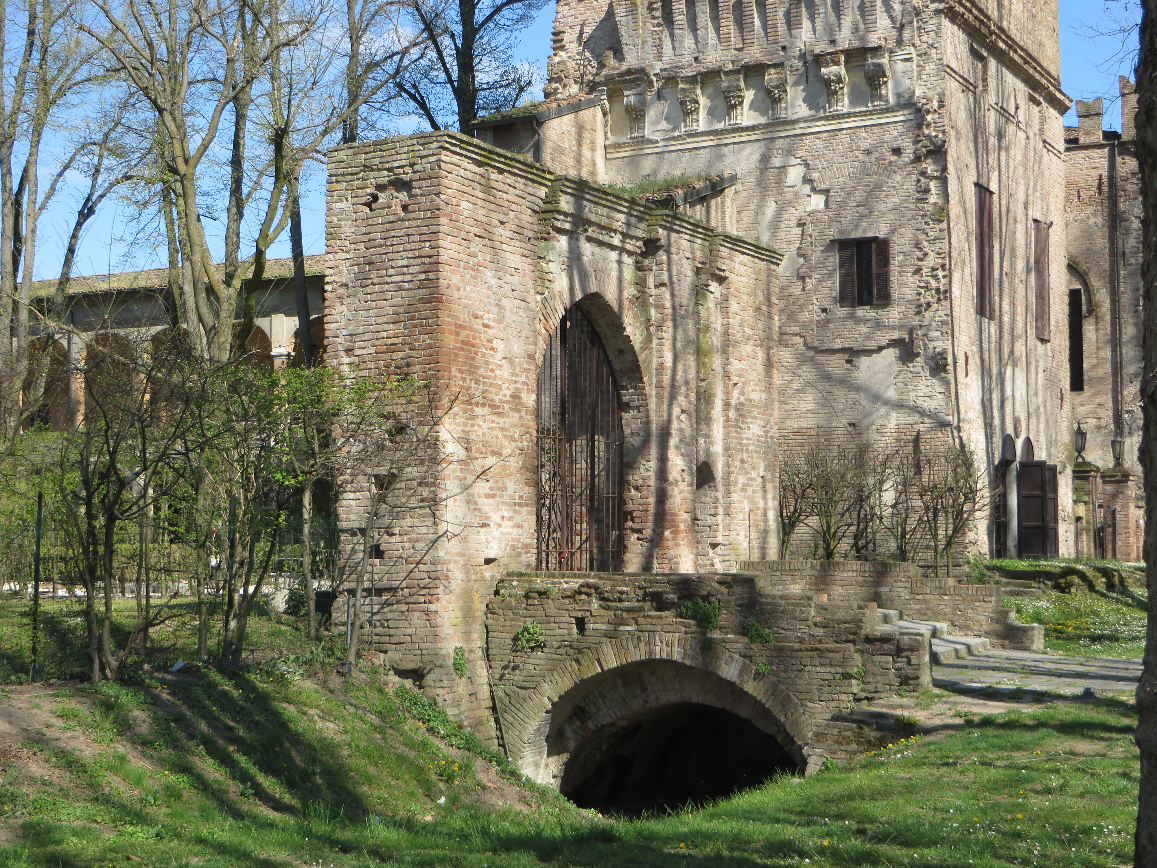 Castel